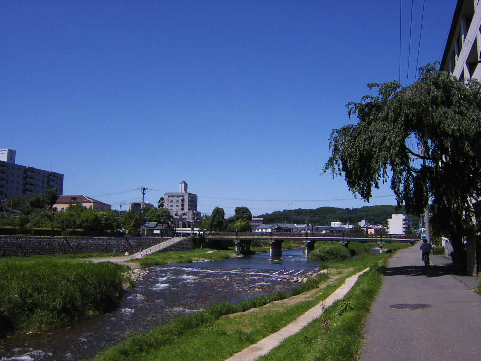 Nakatsu river in Morioka, Iwate pref., Japan.